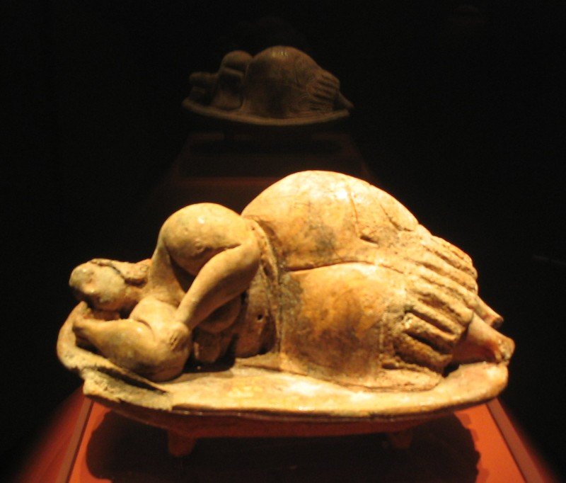 The sculpture is some thousand years of age! This picture was shot in the Museum of Archeology, Valetta, Malta in Summer 2005. The figurine is from the Main Chamber of Hypogeum of Ħal-Saflieni (Paola, Malta).